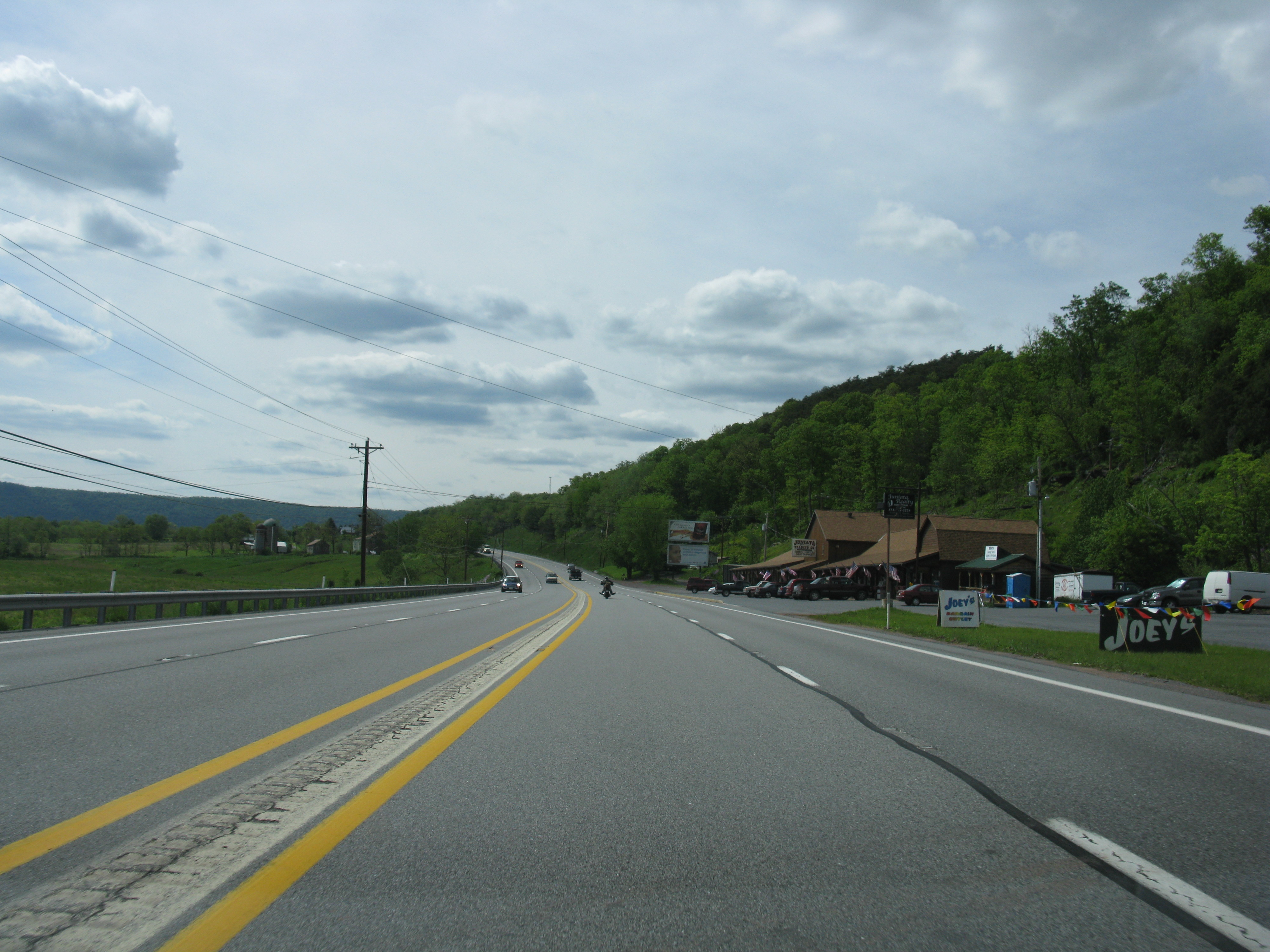 US 30, West Providence Township, Pennsylvania